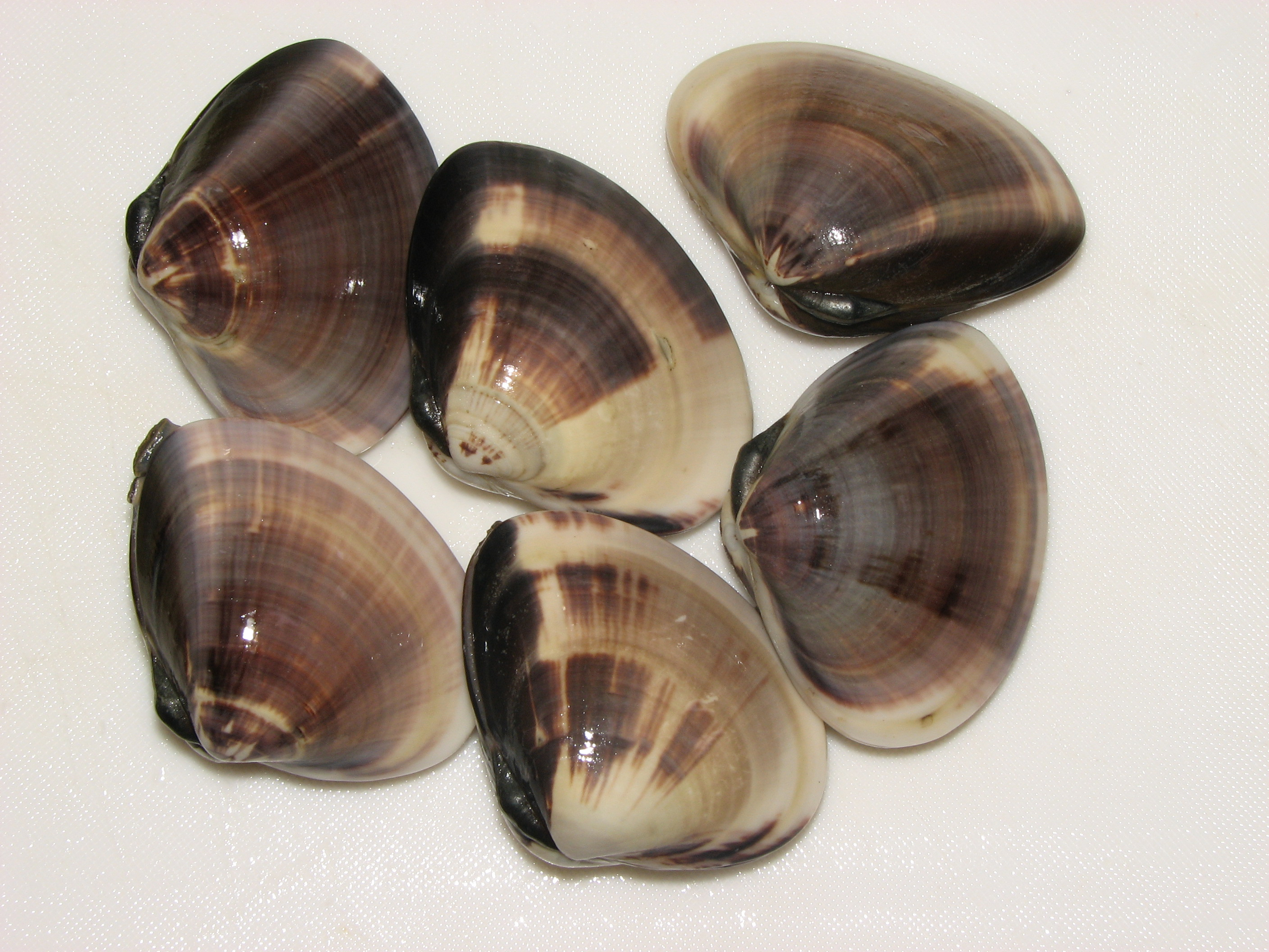 Meretrix lamarckii at Kujukuri-beach, Chiba pref, Japan